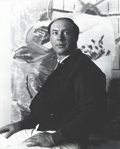 Photo of Karl Knaths from the Provincetown Artist Registry .